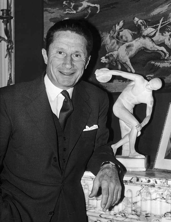 1967 Press Photo President of France's Olympic Committee Count Jean de Beaumont